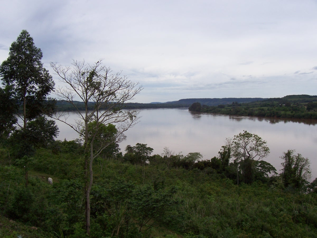 Picture of the Uruguay river, in neighborhoods of Panambí city, in Misiones Province, Argentina. In front, Brazil can be observed.